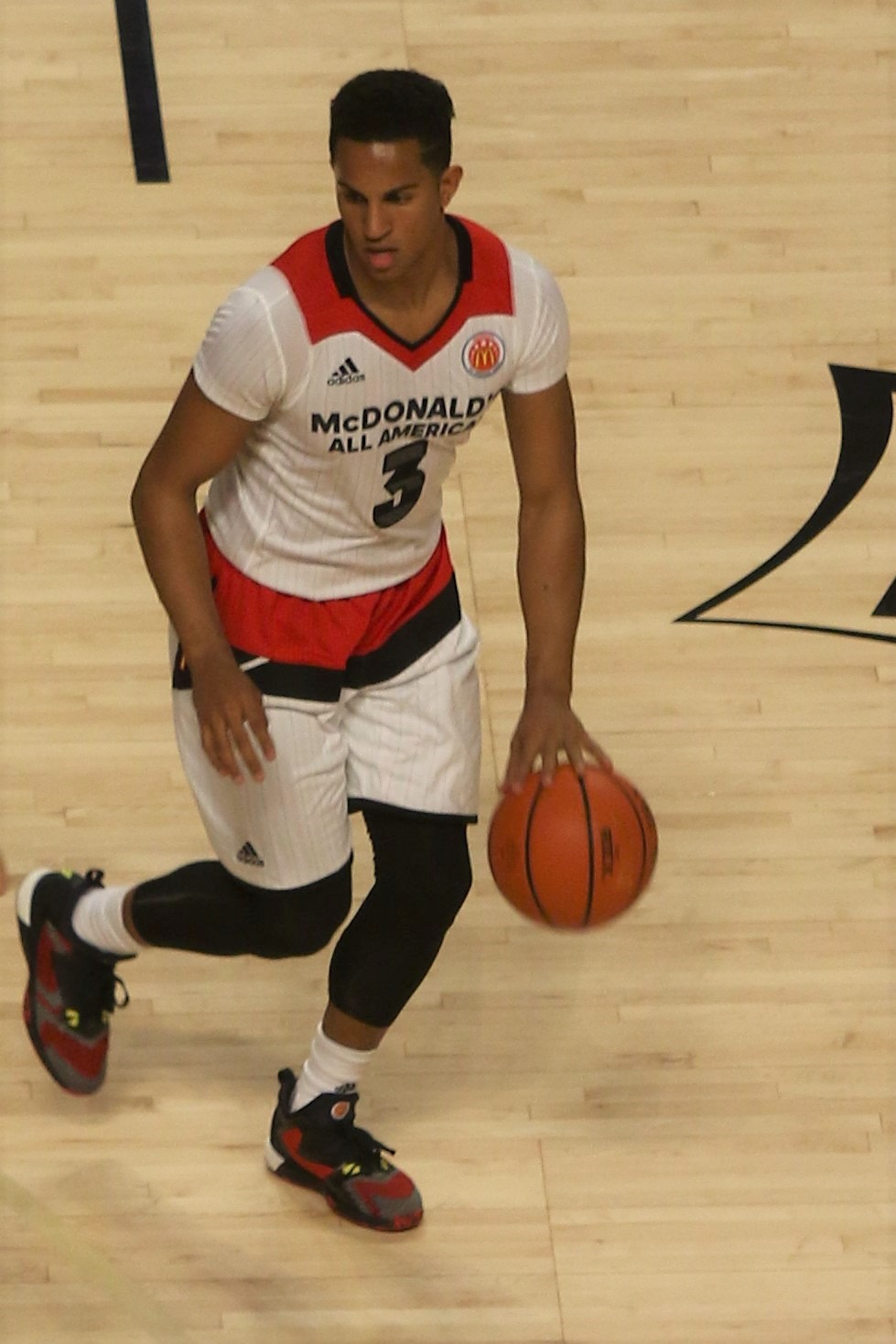 Frank Jackson at the w:2016 McDonald's All-American Boys Game